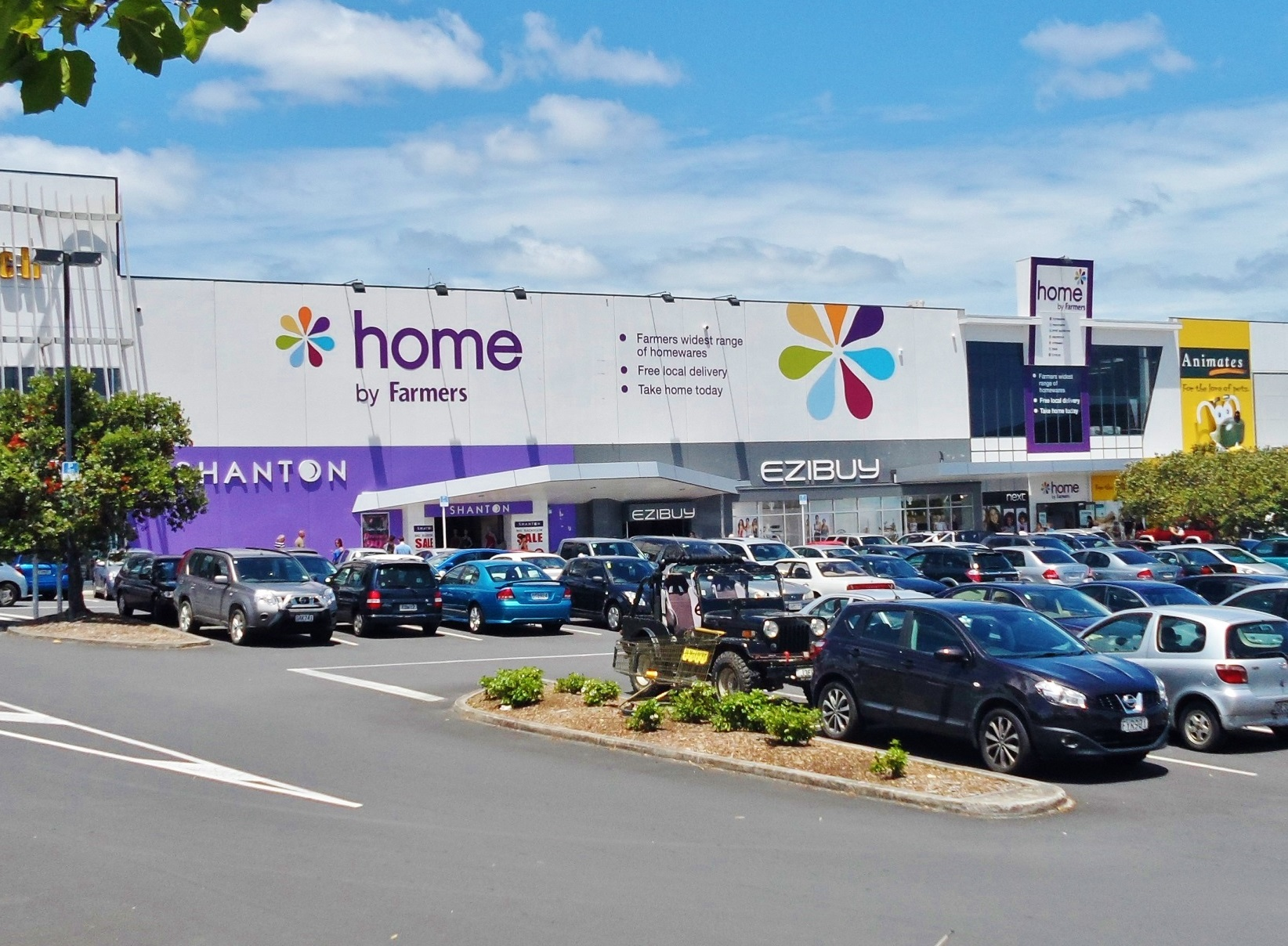 New Zealand department store Farmers Home by Farmers Albany store at Albany Mega Centre in Albany on the North Shore of Auckland, New Zealand in 2013.